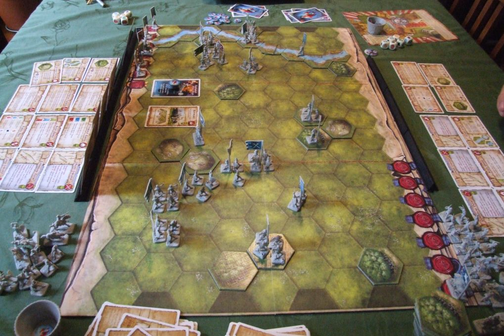 A game of BattleLore in progress.